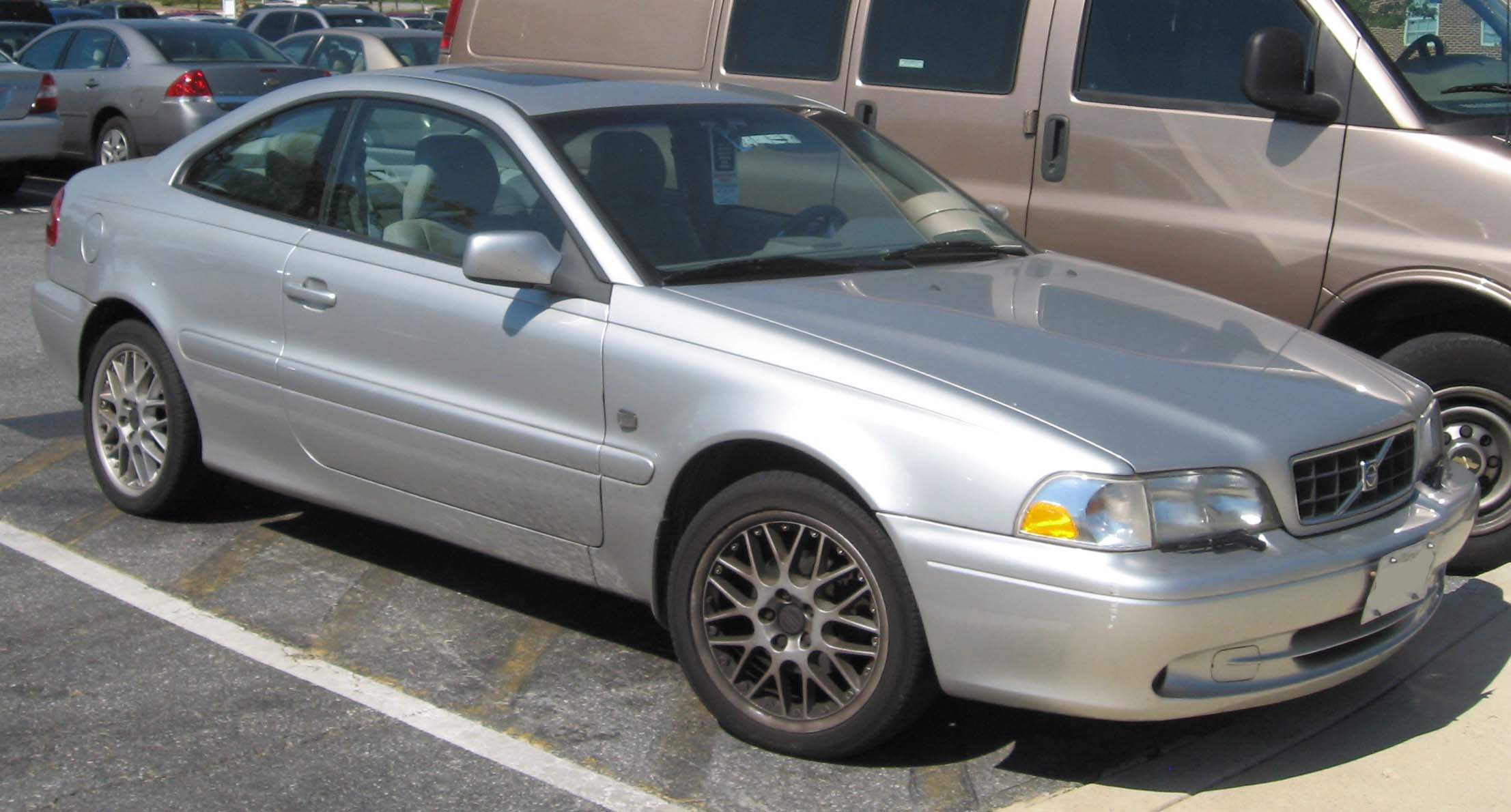 Volvo C70 photographed in College Park, Maryland, USA.